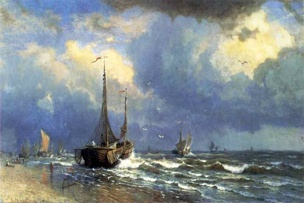 Dutch coast